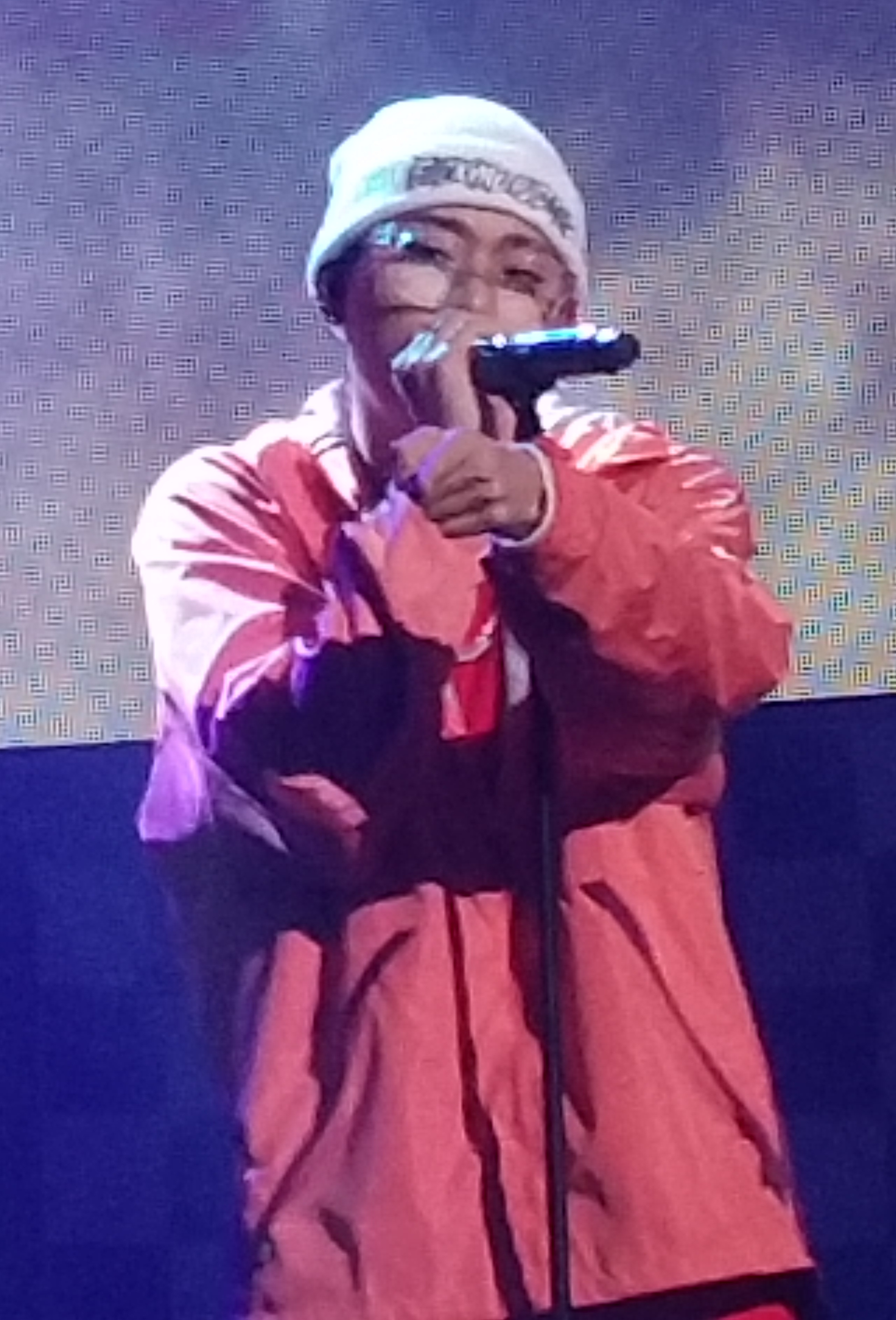 Zico performing at Monster Concert #5, Yes24 Live Hall 예스24 라이브홀, Gwangjang-dong, Gwangjin-gu, Seoul.